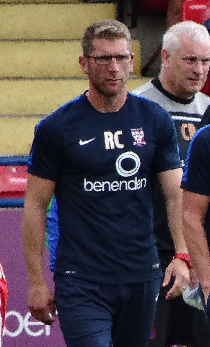 Richard Cresswell before York City's match against Carlisle United at Bootham Crescent, York on 19 September 2015